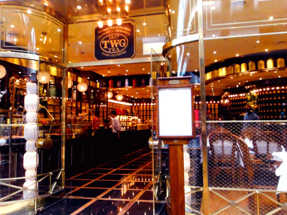 TWG Tea Garden, The Shoppes at Marina Bay Sands, Singapore.